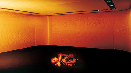 House of Music (Vienna)